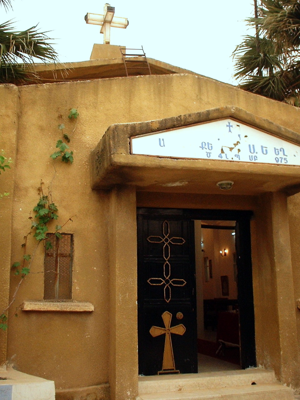 The Armenian church of the Holy Cross in Tal Abyad, Syria. The church was burnt on 27 October 2013 by the Islamic terrorist groups in Syria who are fighting against Bashar al-Assad